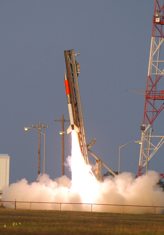 An Improved Orion Sounding Rocket just after launch.